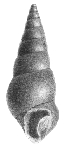 apertural view of a shell of Madagasikara madagascariensis, synonym: Melania madagascariensis